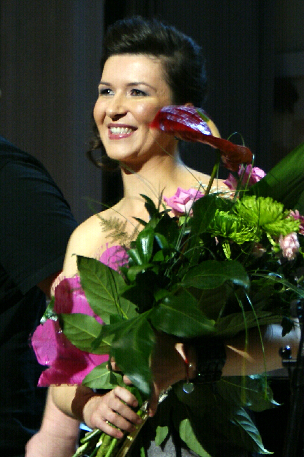 taken at the final of Jon Lord concert in Warsaw